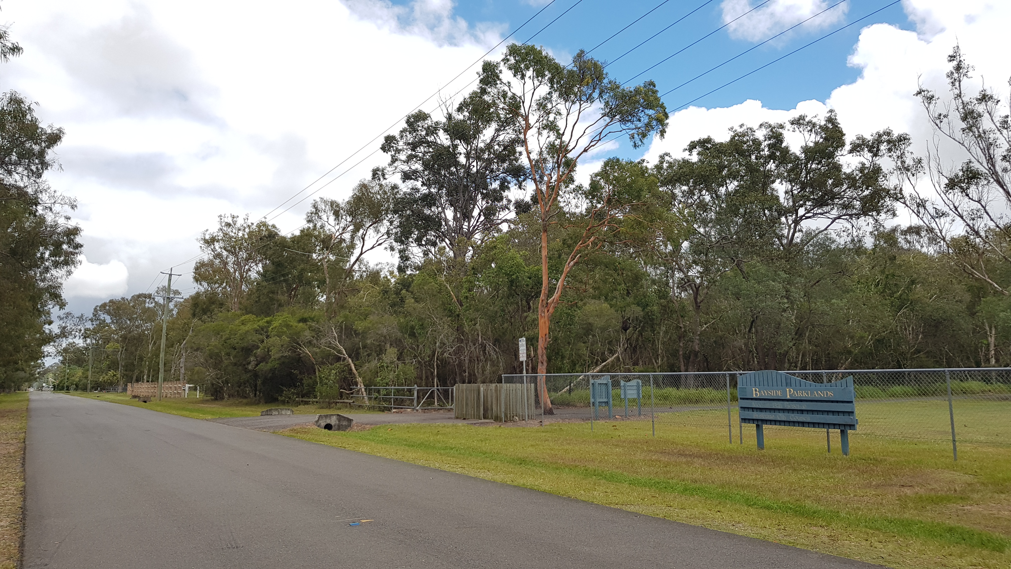 Photograph of Mookin-Bah Reserve and Chelsea Road in Ransome, Queensland, facing south-west